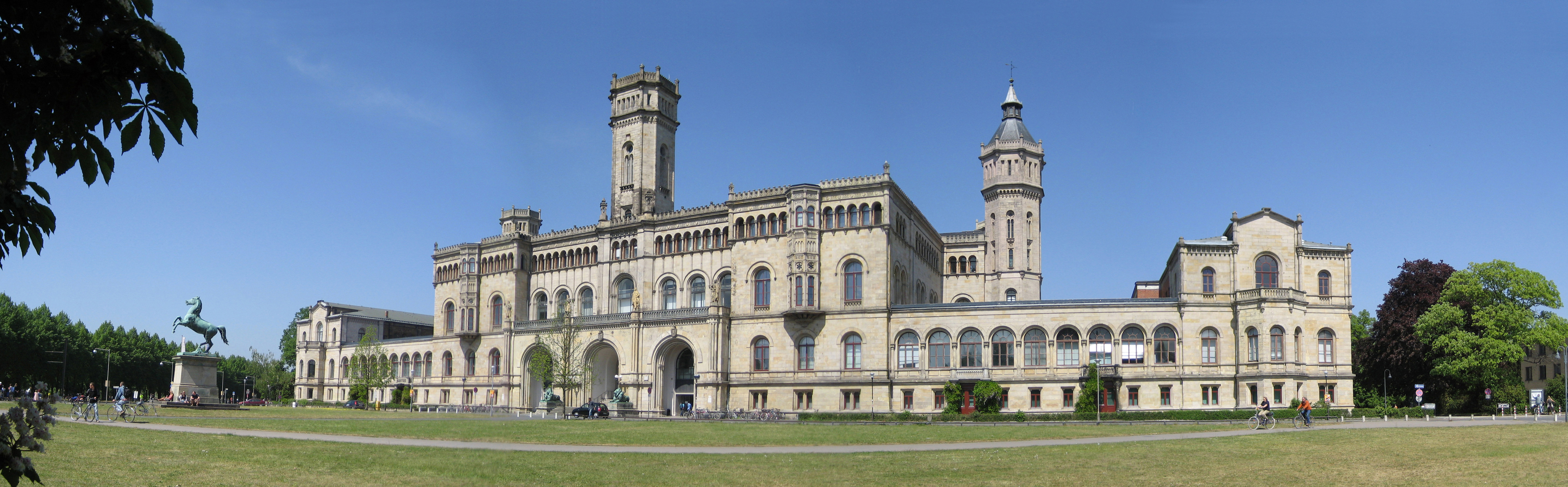 Leibniz University of Hanover